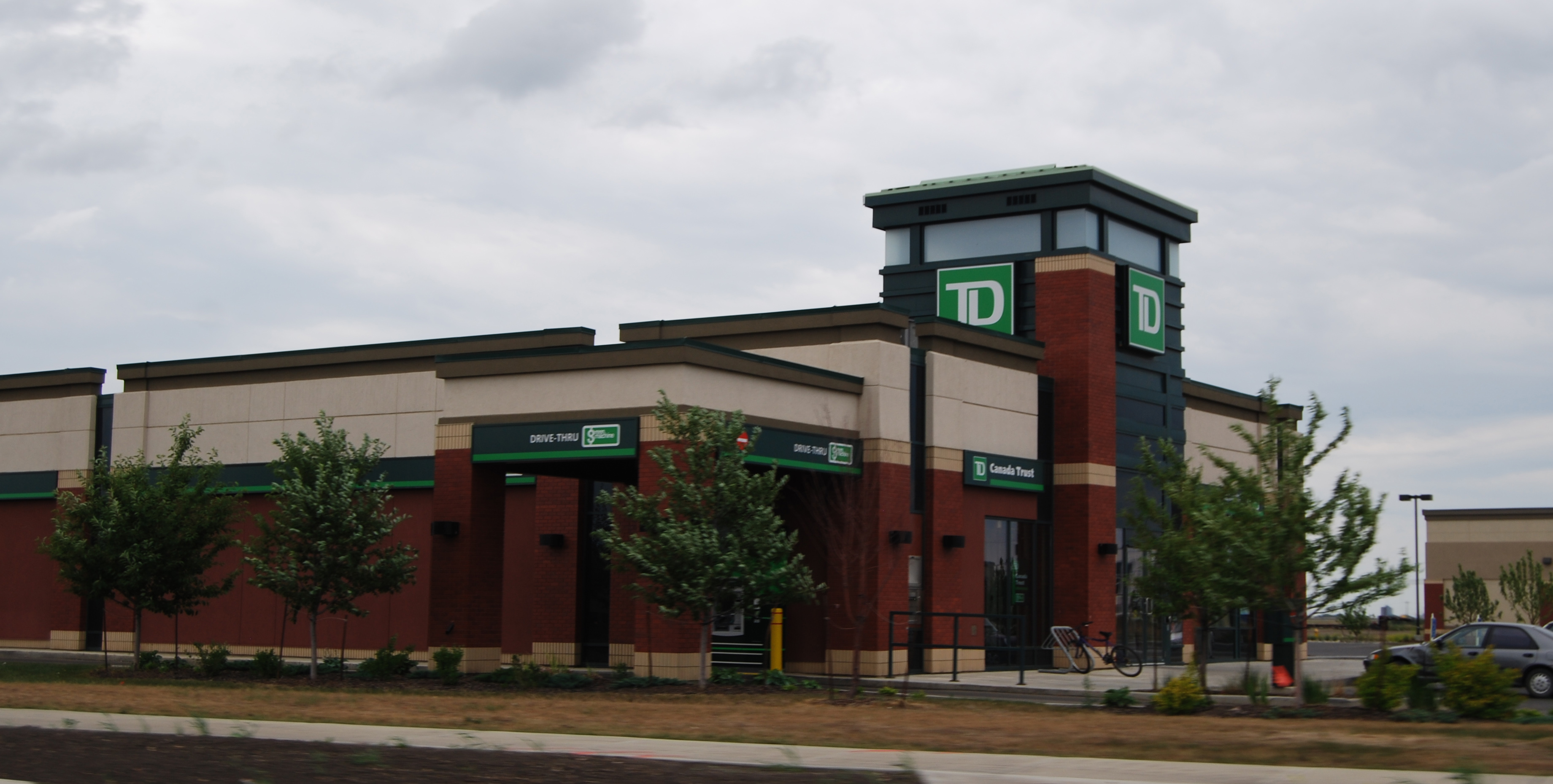 I Myke Waddy took this photo, Alberta Canada. South Edmonton, Ellerslie Rd.